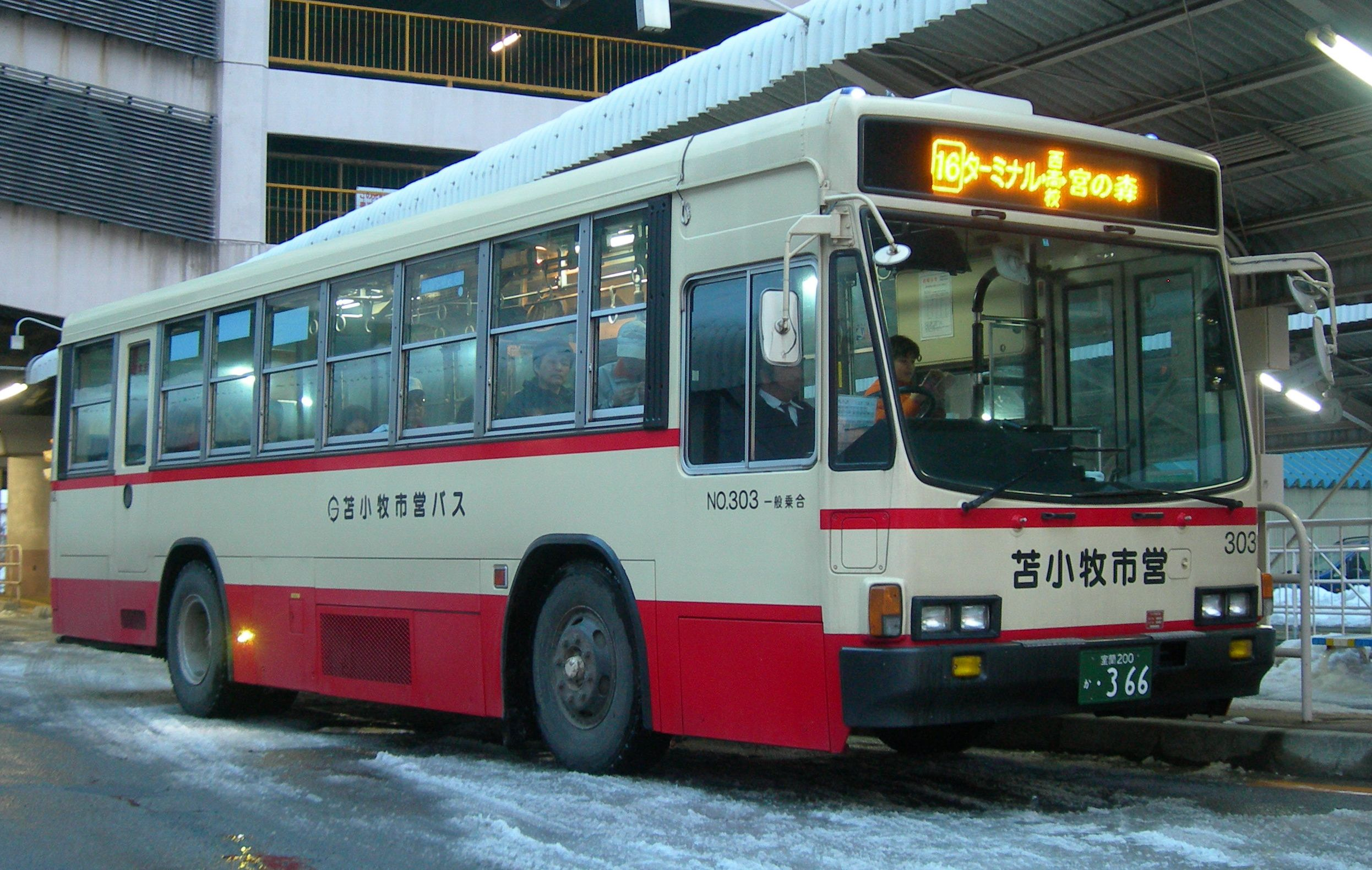 Tomakomai City Bus car 苫小牧市営バスの車両